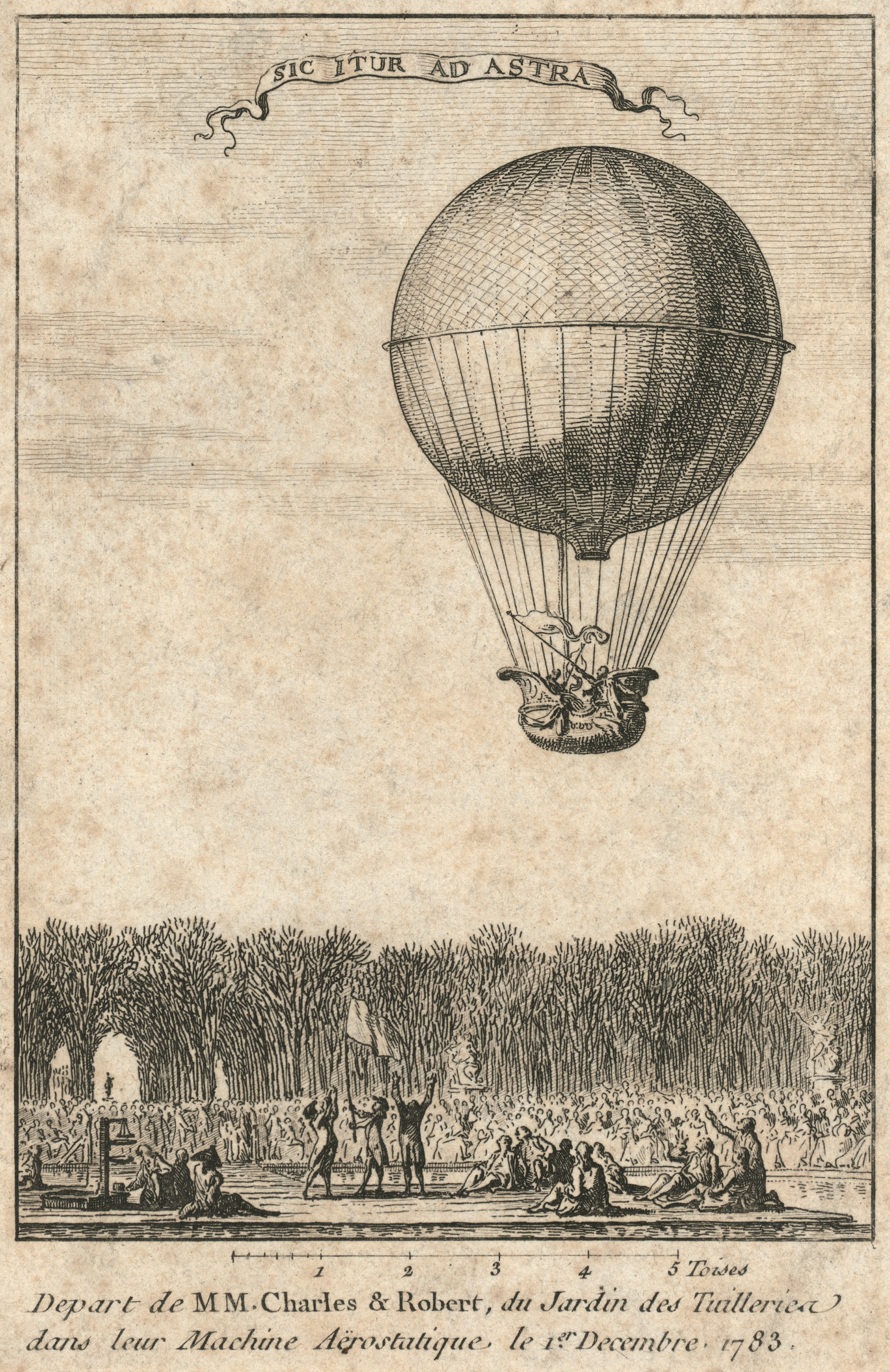 Print shows the balloon of Jacques Alexandre César Charles and Marie-Noël Robert ascending from the Tuileries Garden, Paris, France, December 1, 1783 in the first hydrogen balloon flight. "Sic itur ad astra" written in banner above image. (Source: A.G. Renstrom, LC staff, 1981-82.)